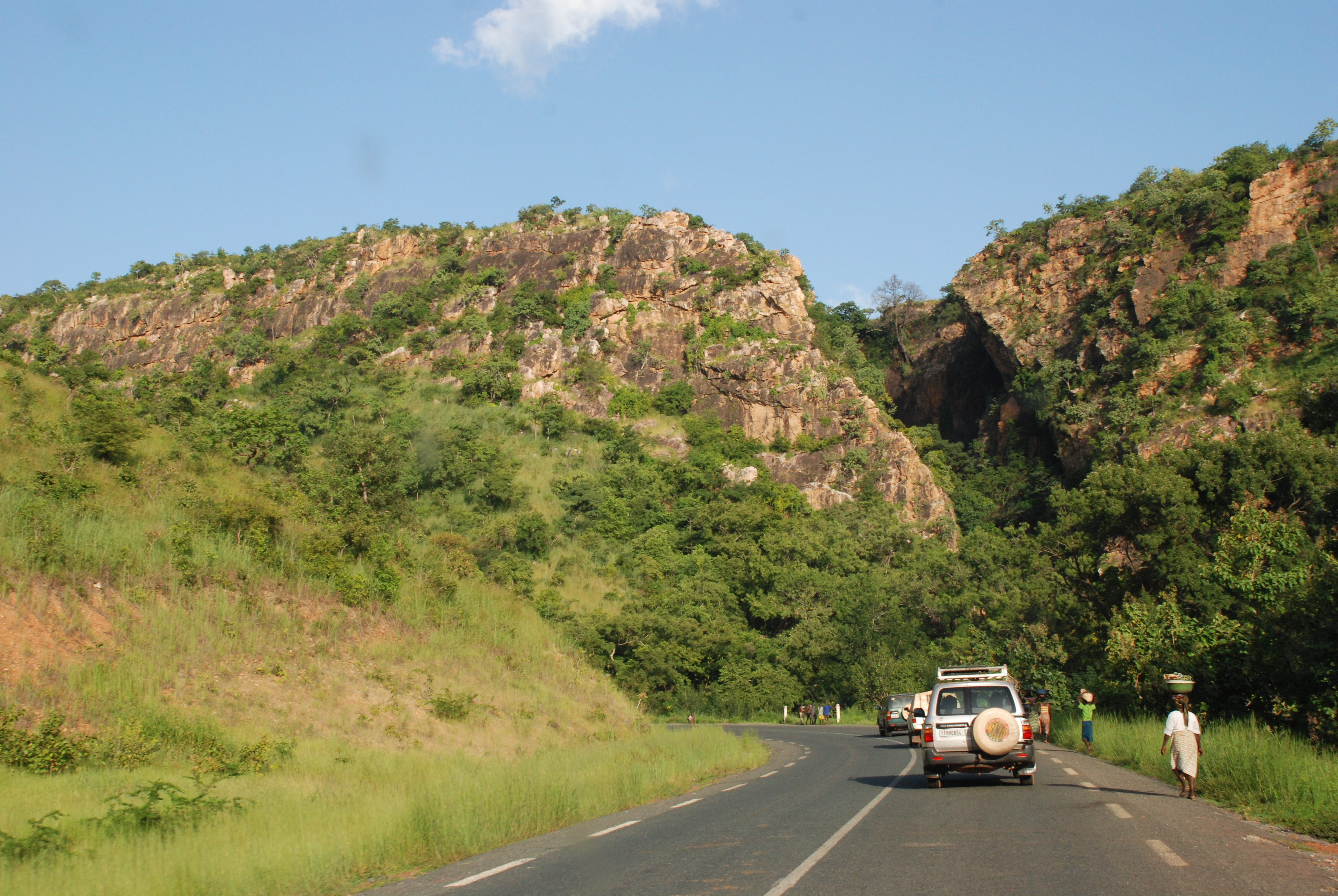 The RNIE 3 highway in Province Atakora - Benin, West Africa - south of Tangieta, 50 Km north of Natitingou)